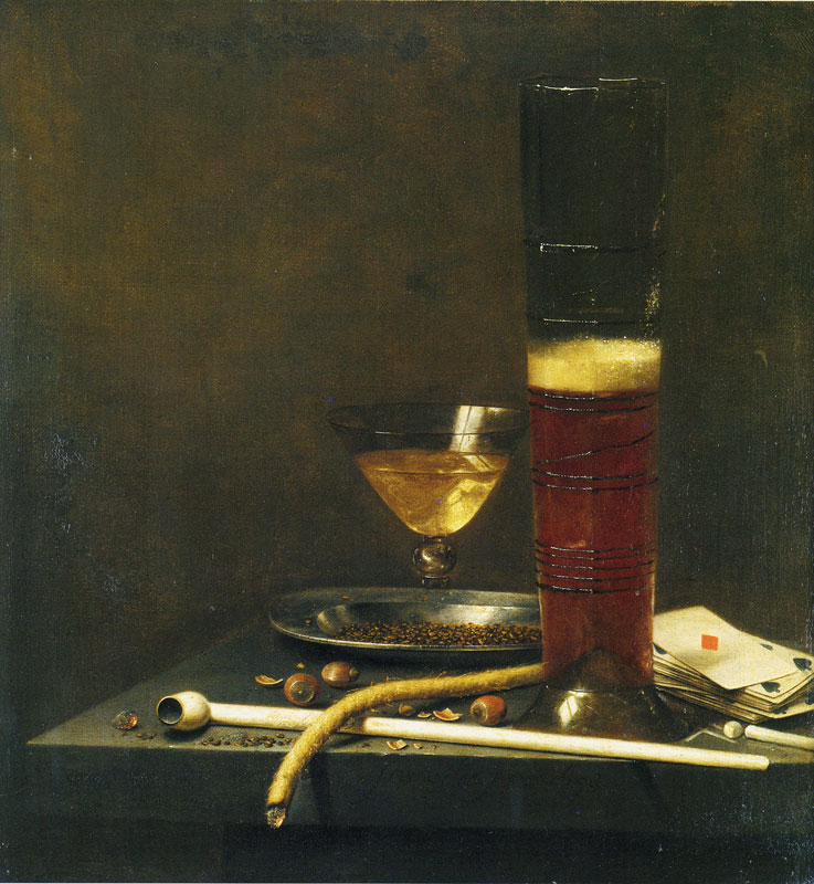 Glasses, Smoking Implements, and Cards